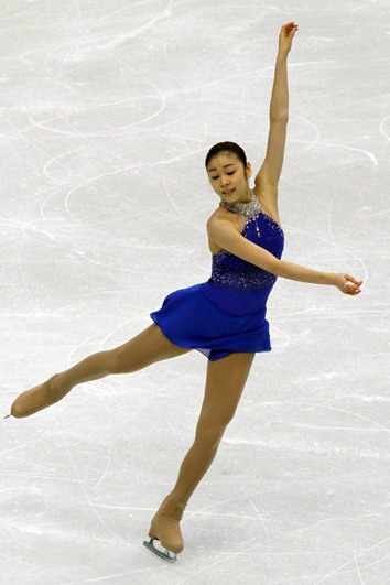 Kim Yuna during her free skating competition. And she is 2010 Olympic goldmedalist.